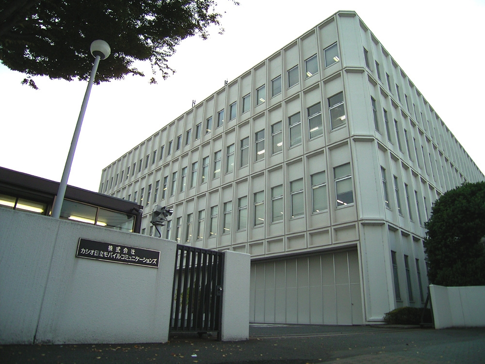 CasioHitachi-MobileCommunications Head Office Higashiyamato, Tokyo カシオ日立モバイルコミュニケーションズ・本社 東京都東大和市桜が丘2-229-1